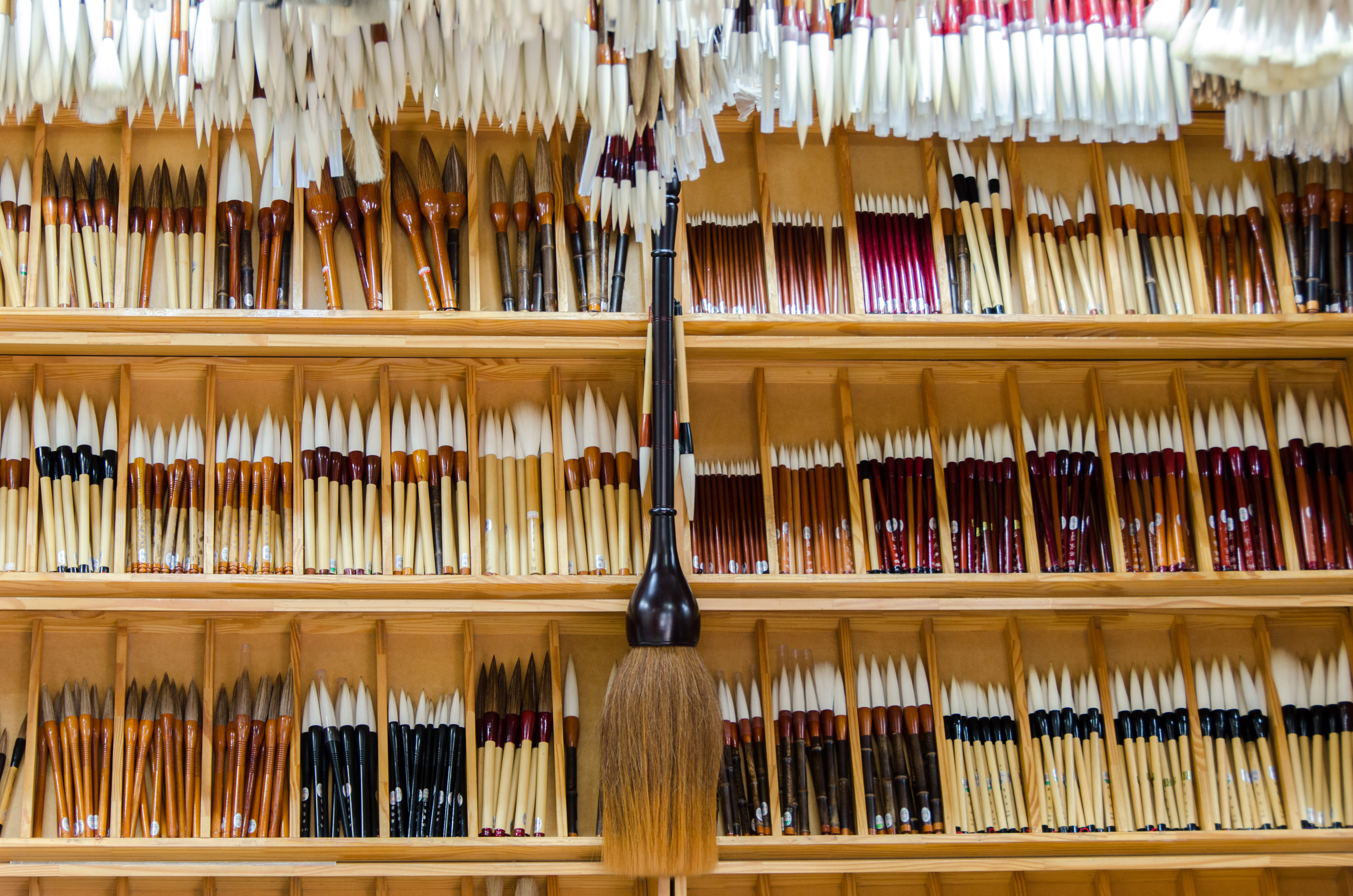 An ink brush shop in Seoul, Korea